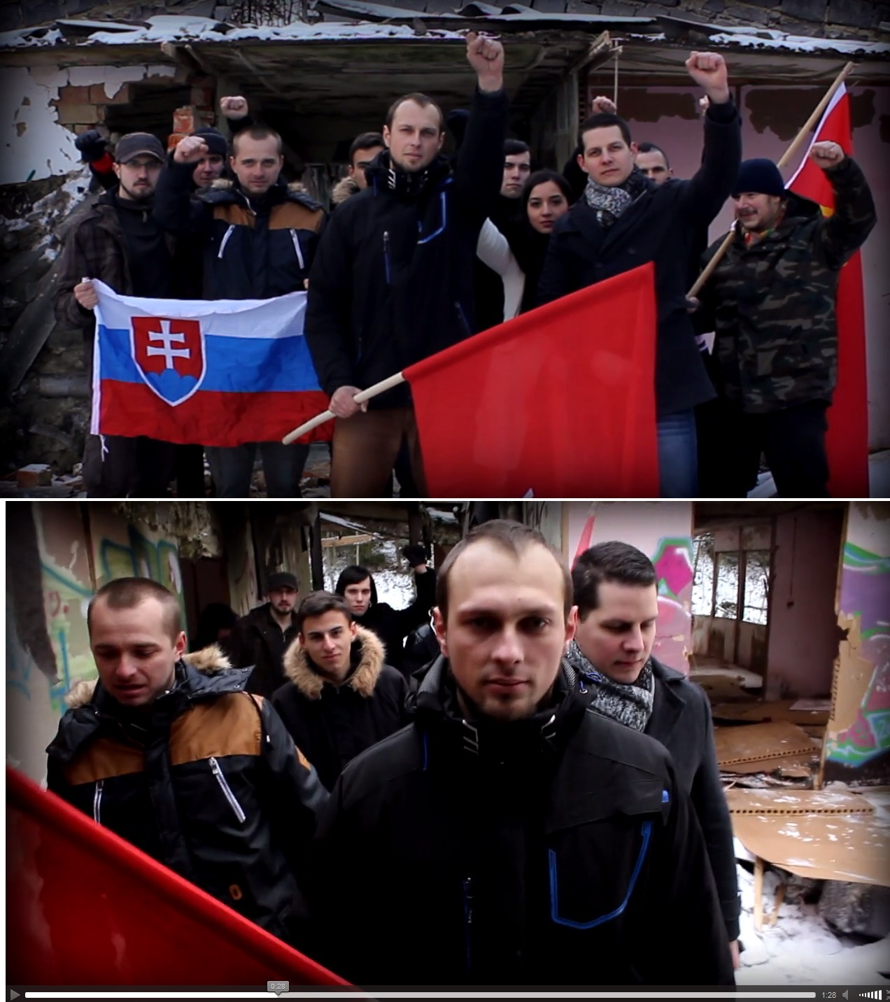 Slovak left-wing from Vzdor-strana práce